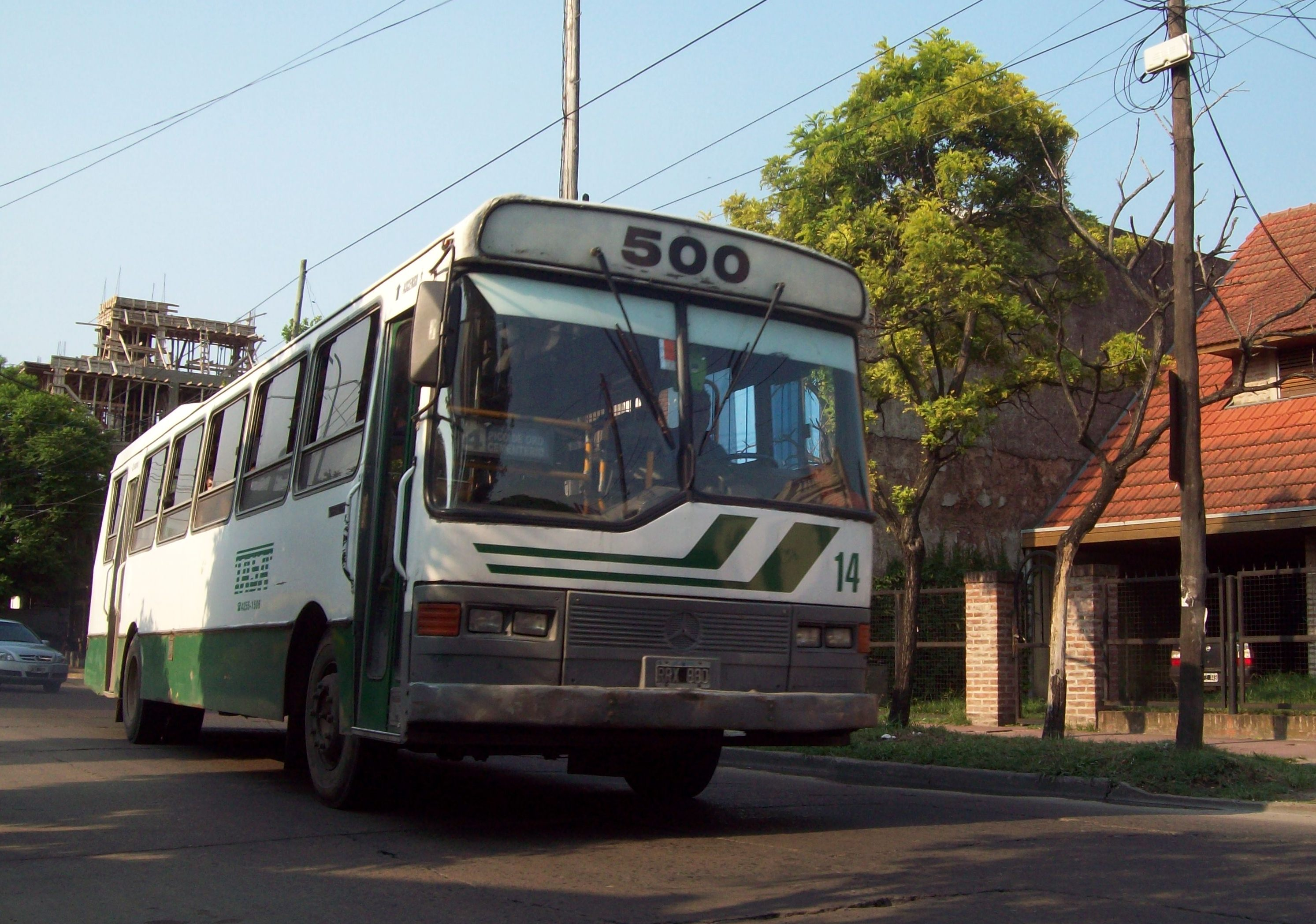 Bus (reg. ..X 880, #14) with Mercedes-Benz chassis in Florencio Varela, Buenos Aires Province, Argentina. Colectivo, line 500, Treinta de Agosto S.A. operator.